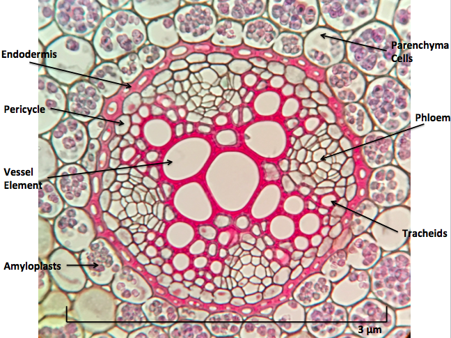 Histology slide of Ranunculus root, a eudicot.